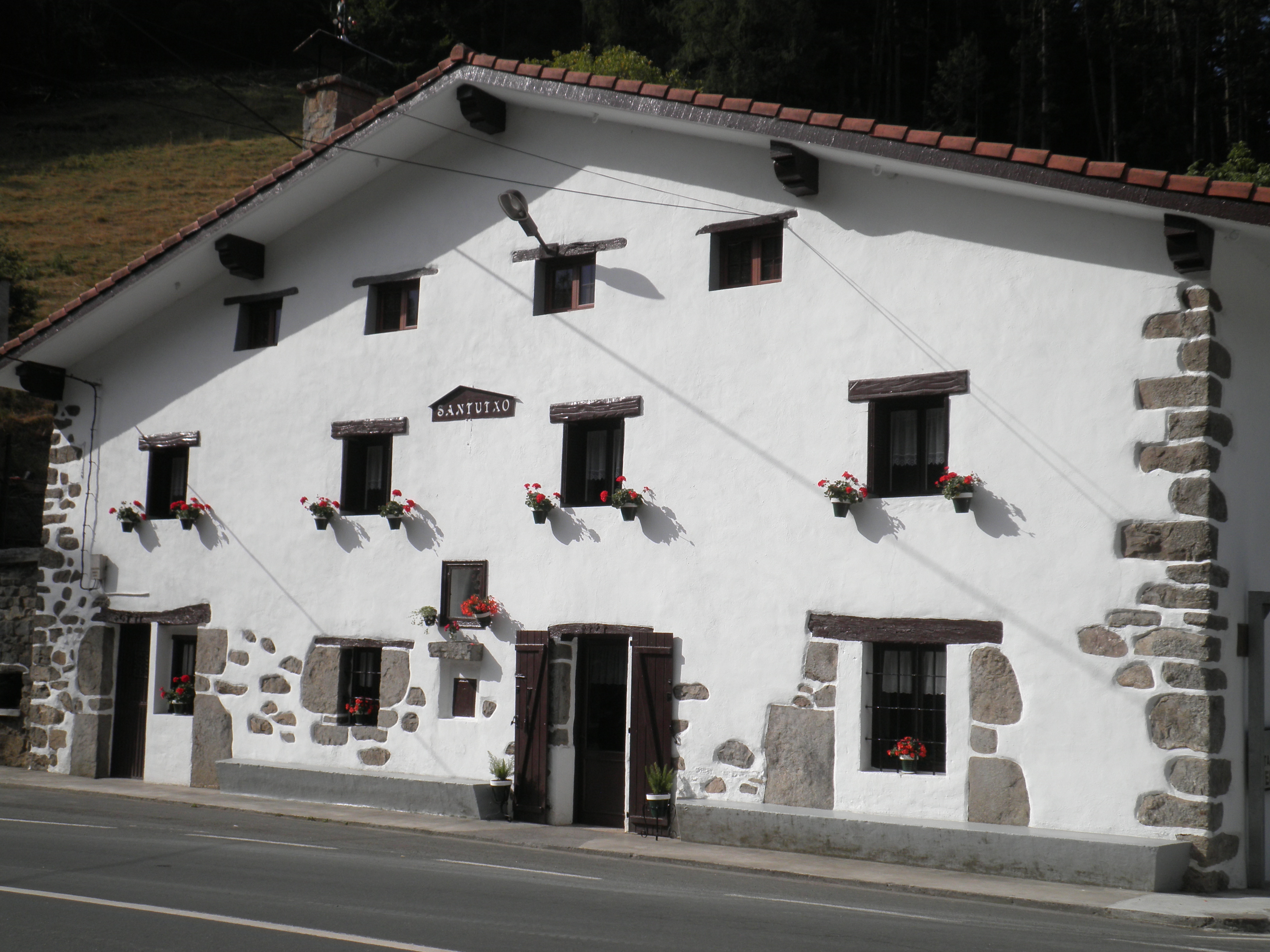 Santutxo benta Albizturren.